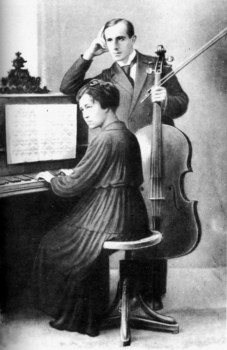 Leopold Rostropowitsch and his wife in 1920/1921 (Museum of the Rostropovich family in Baku)